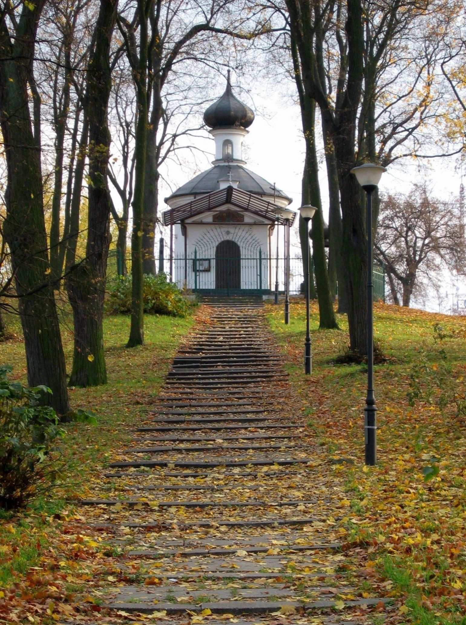 Białystok. Outside stairs of the Church of St. Maria Magdalena